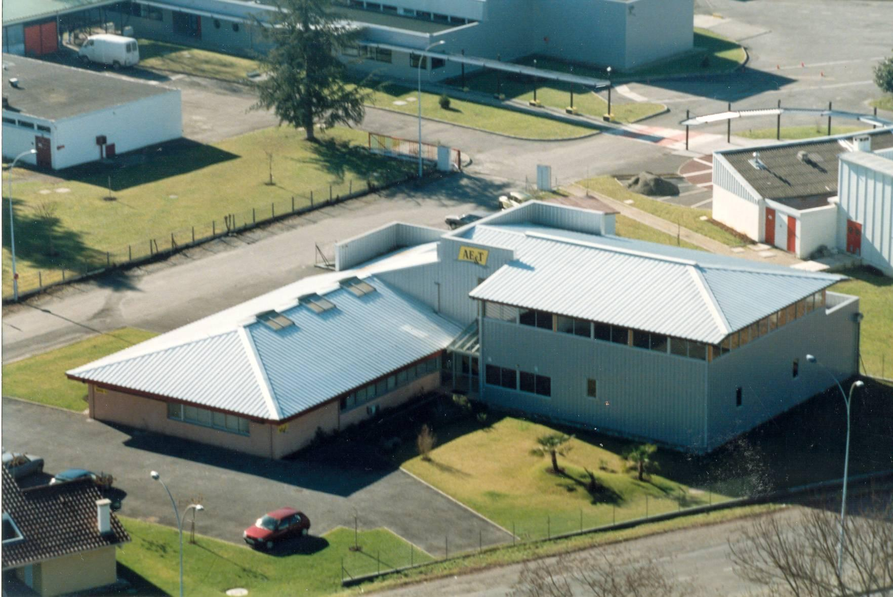 AE&T building